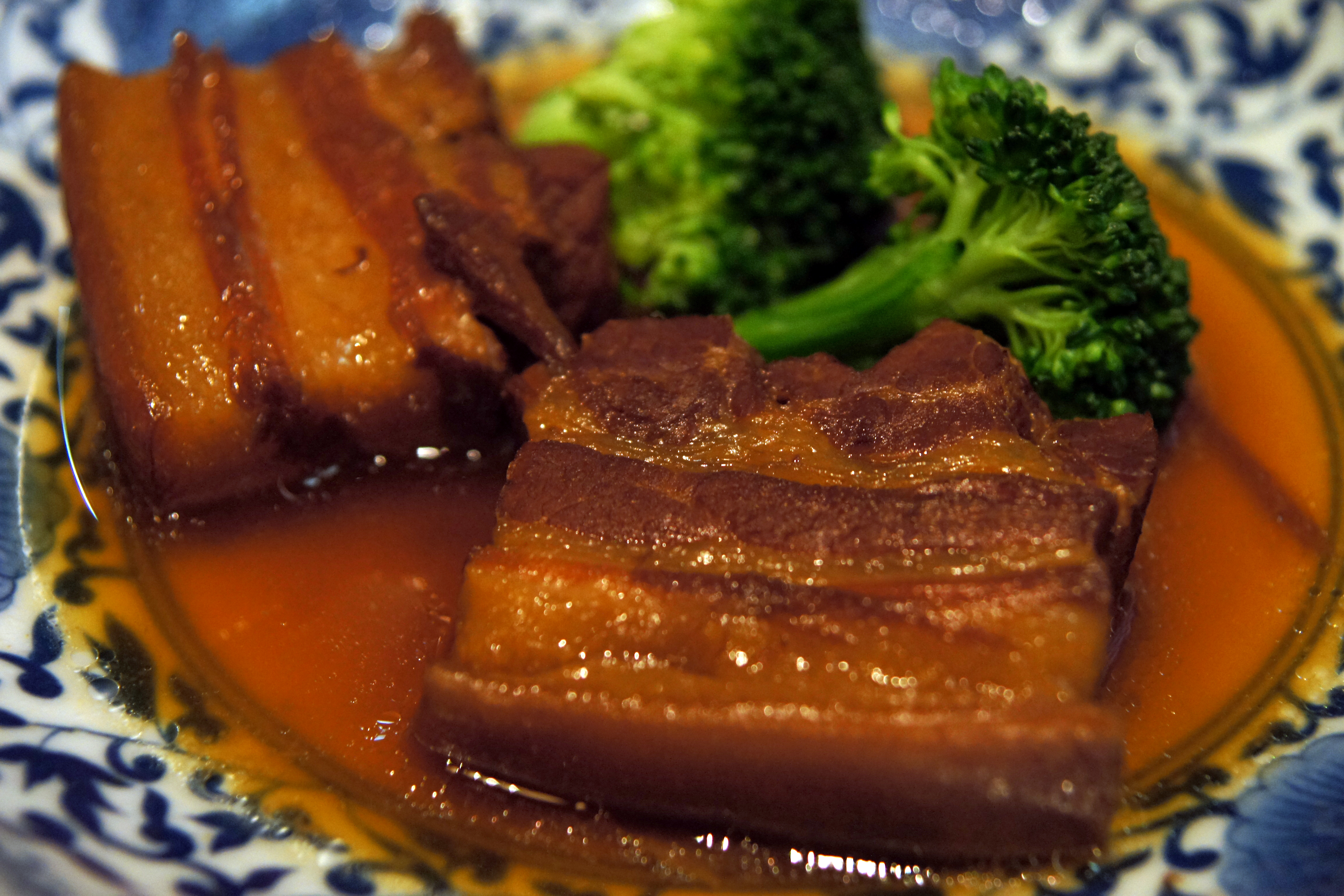 Shippoku cuisine at "Nagasaki Shippoku Hamakatsu" in Nagasaki, Nagasaki prefecture, Japan